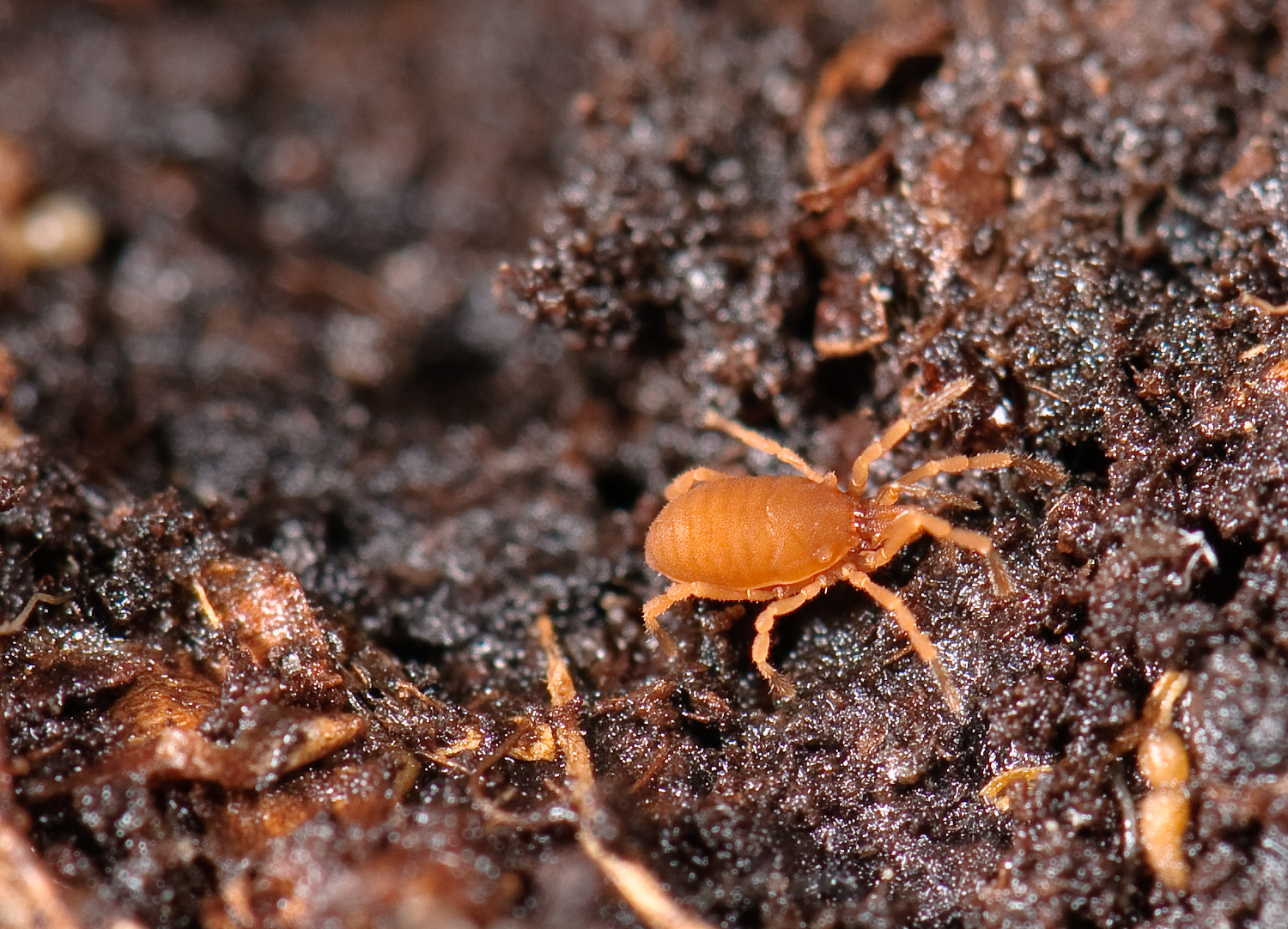 collected by C. Richart & S. Derkarabetian, April 2008, Clatsop Co., OR pictures taken in lab